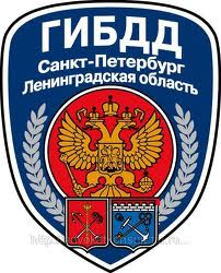 Emblem of the Department for Road Safety of Saint Petersburg and Leningrad Oblast